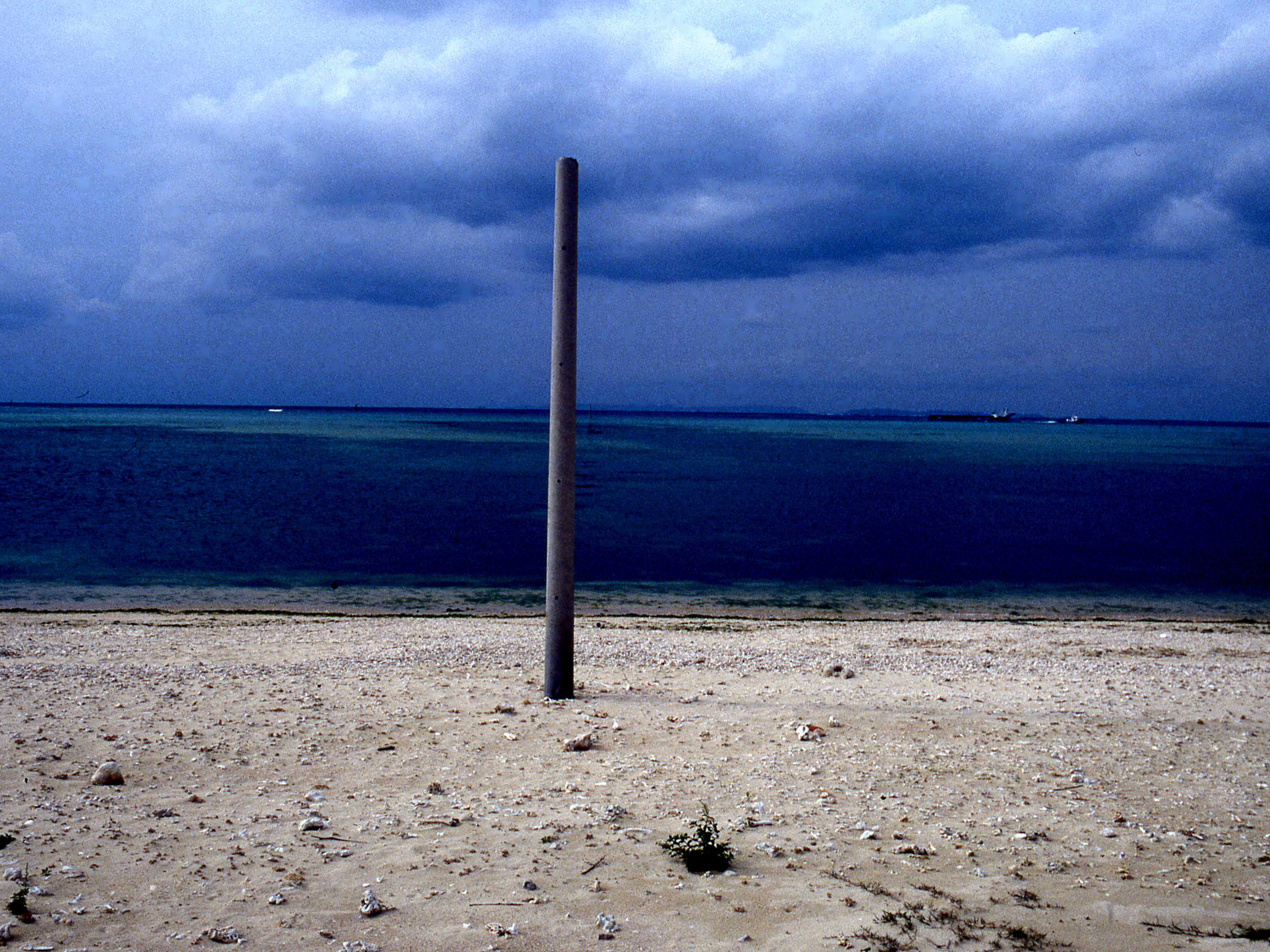 A pole on a beach in Itoman, Okinawa Prefecture, Japan